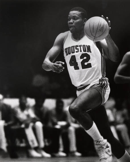 Michael Young as a player for the Houston Cougars men's basketball team